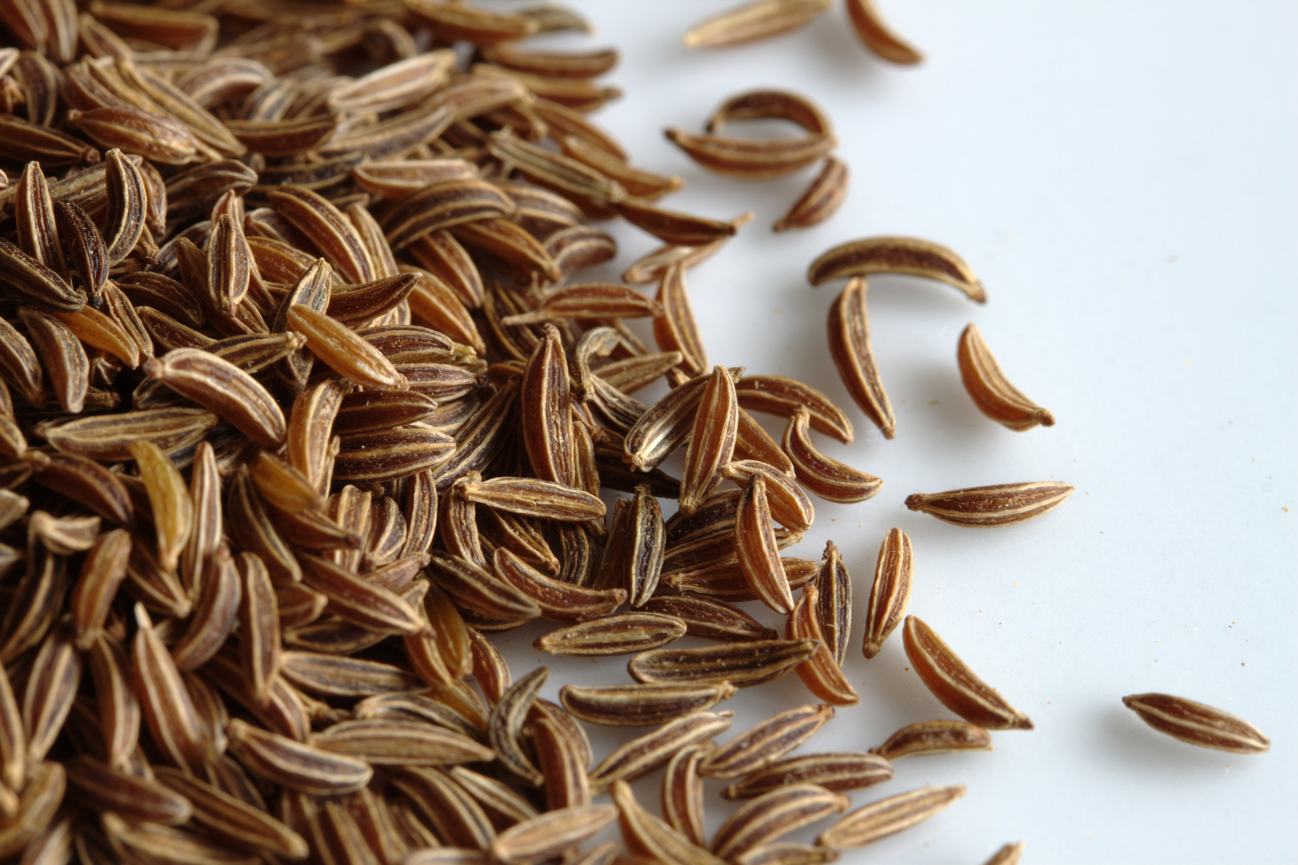 Caraway